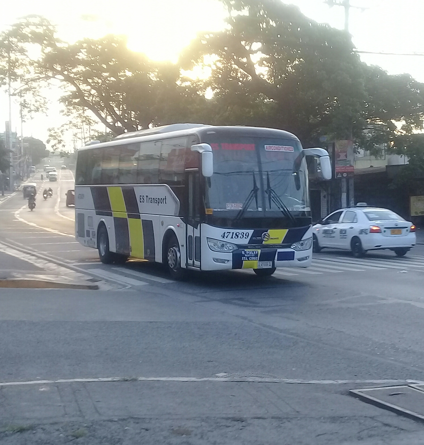 ES Transport 471839 bound to Sta. Cruz, Manila